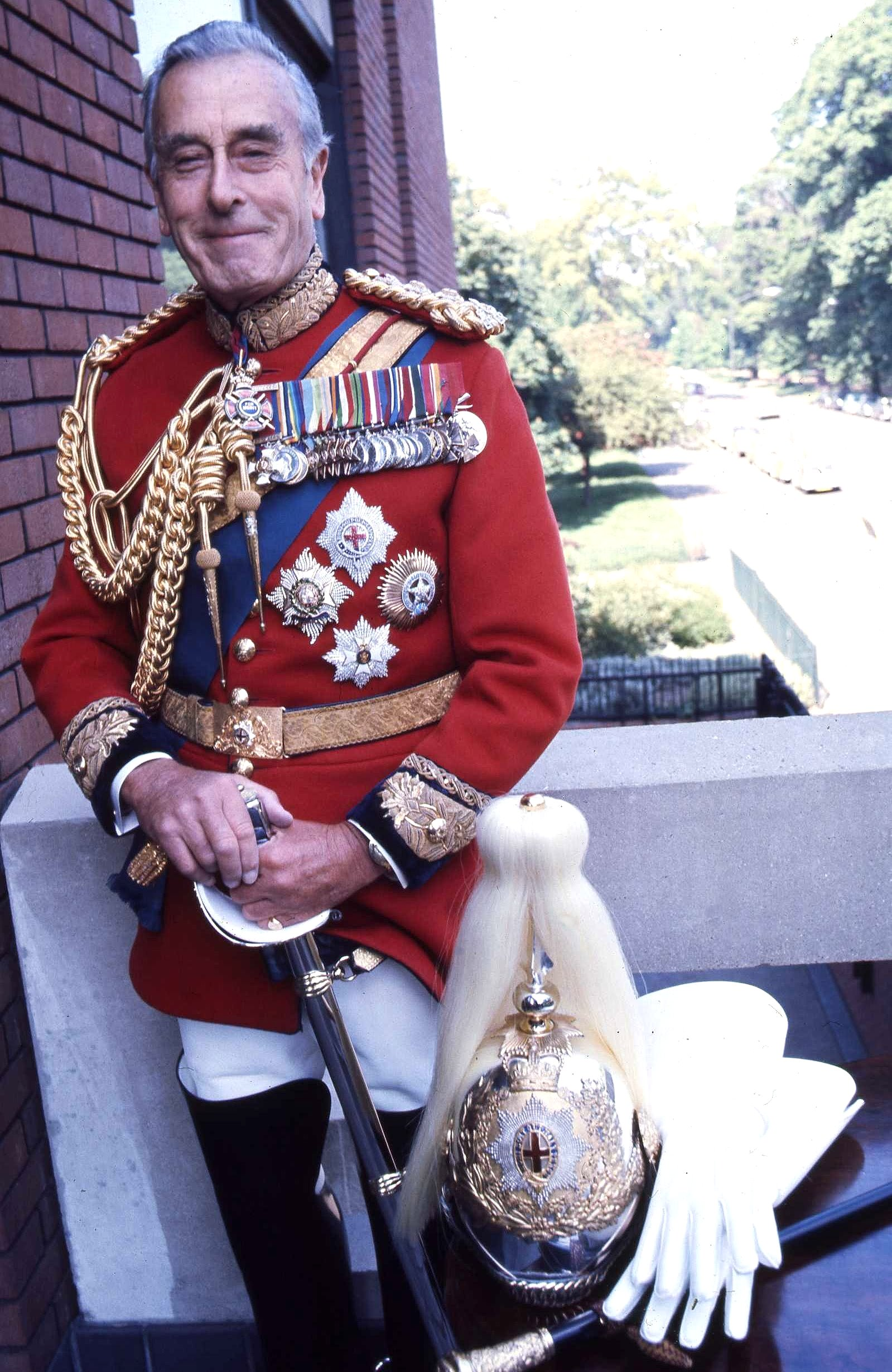 A portrait of Earl Mountbatten of Burma in the uniform of the Colonel-in-Chief of Life Guards